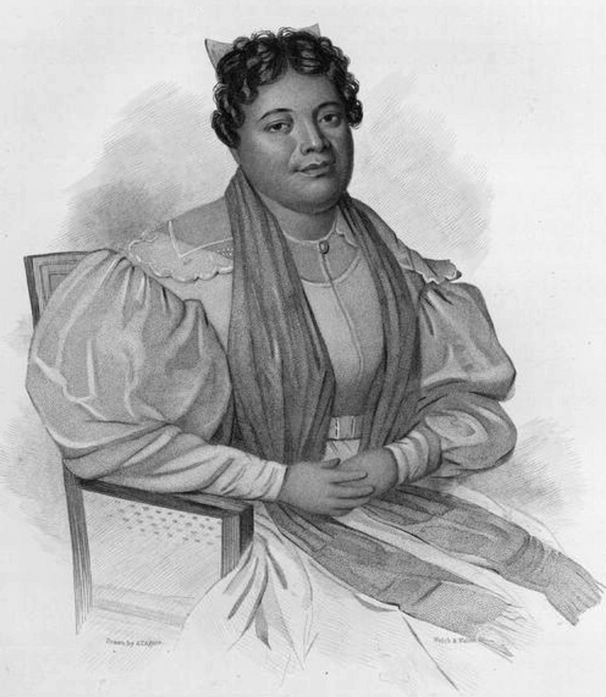 Hawaiian High Cheifess Kekāuluohi (1794–1845) was Queen Consort to the first two rulers of the Kingdom of Hawaii, Kamehameha I and II. She was mother of King William Charles Lunalilo (1834-1874), and Kuhina Nui (co-regent) with King Kamehameha III under the name Ka'ahumanu III. She signed the first written constitution of the Kingdom in 1840.